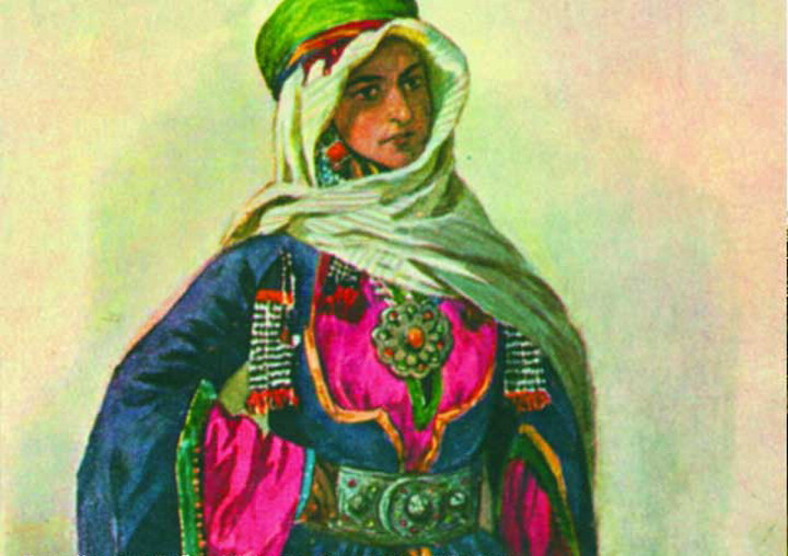 Mountain Jewish Female from Guba